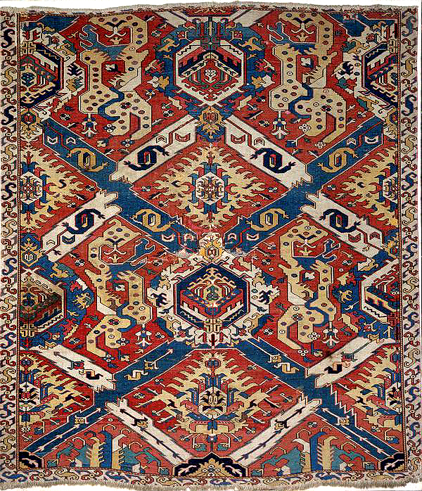 Dragon carpet with swastikas from Azerbaijan, 212 x 184 cm, T84-1909